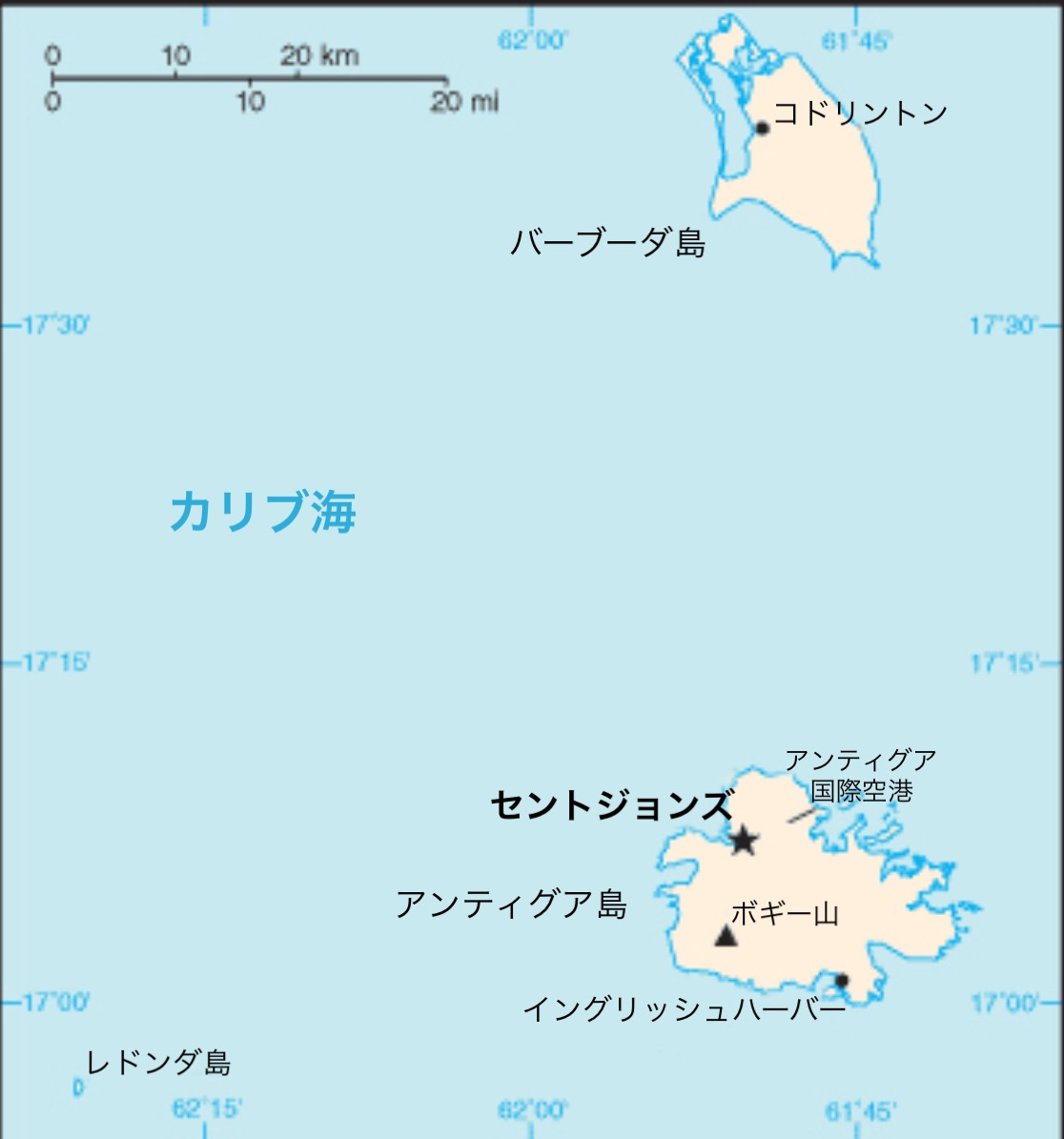 Map of Antigua and Barbuda in Japanese (from CIA World Factbook)